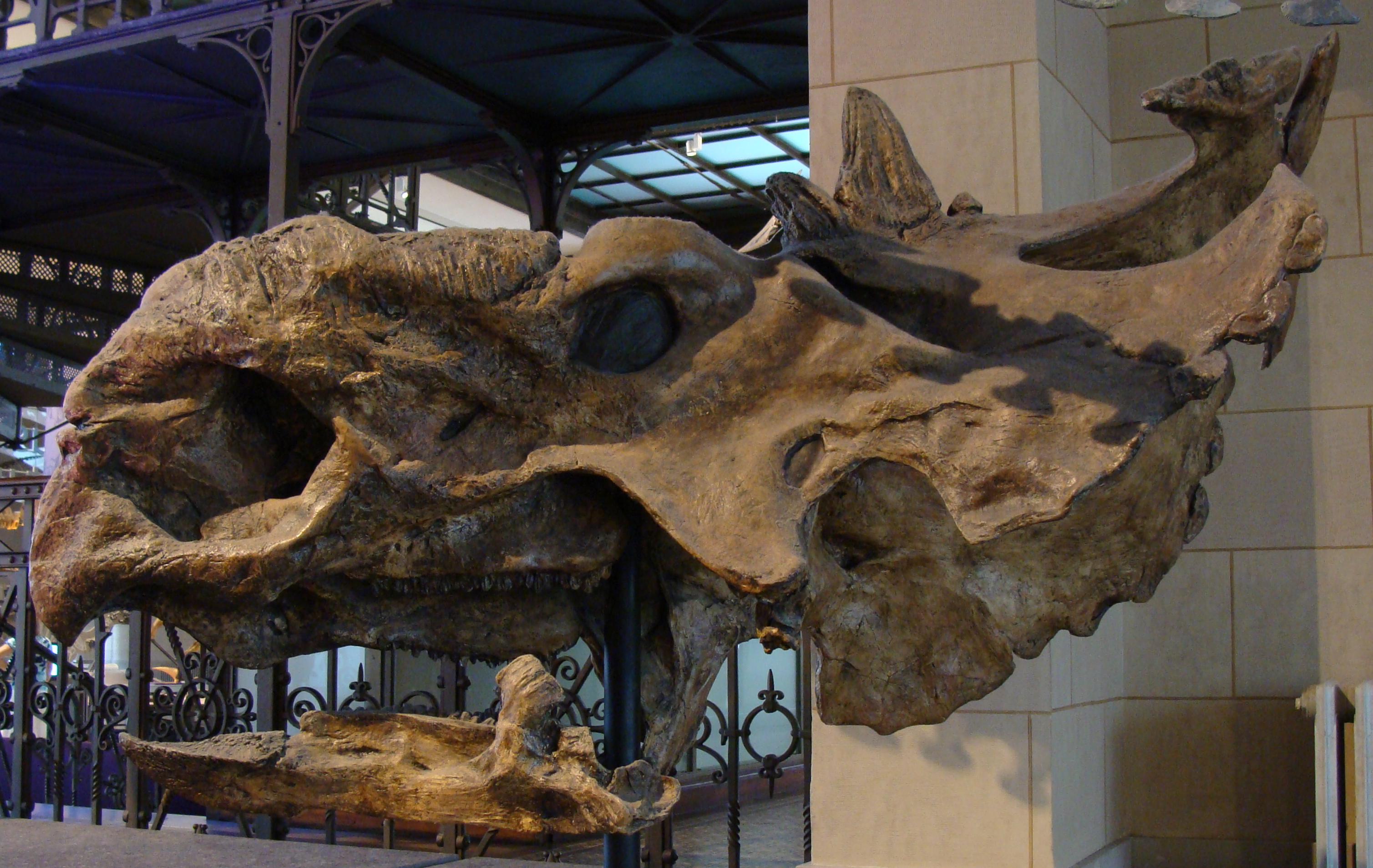 Pachyrhinosaurus lakustai skull in the Royal Belgian Institute of Natural Sciences.